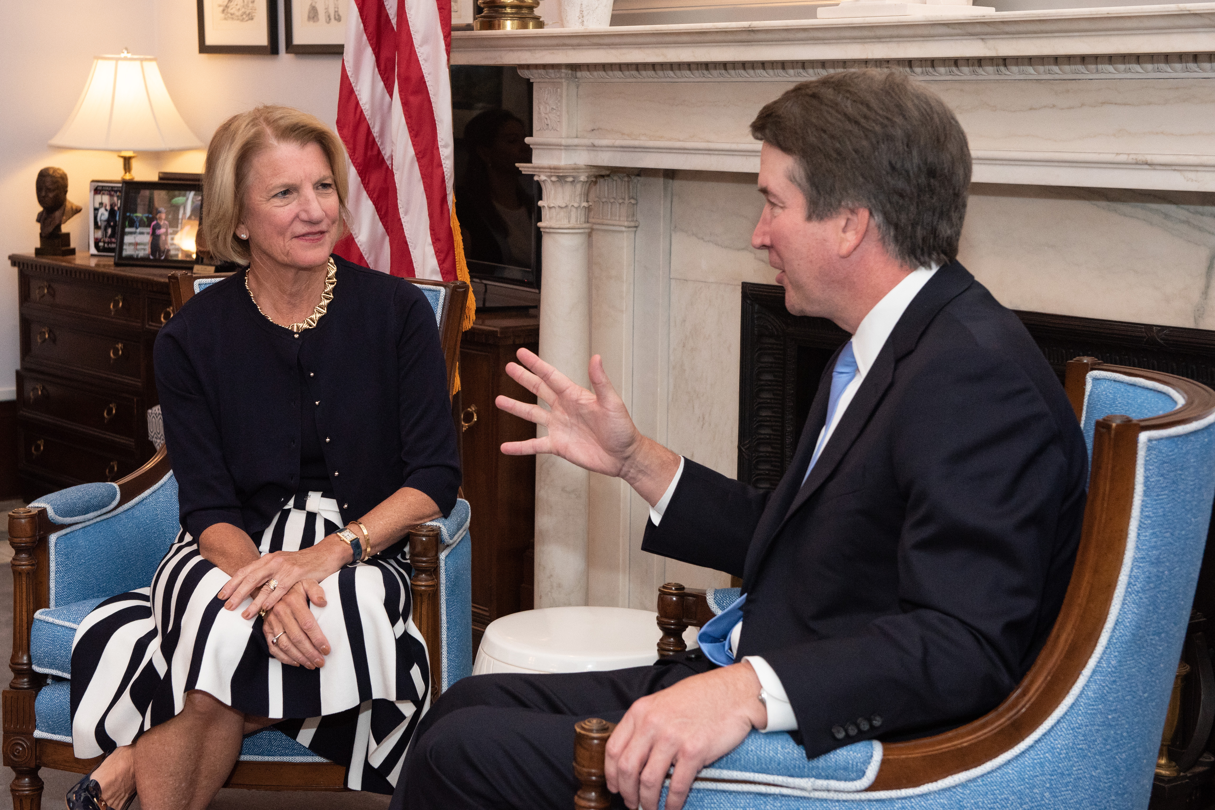 Senator Shelley Moore Capito meets with Supreme Court nominee Judge Brett Kavanaugh